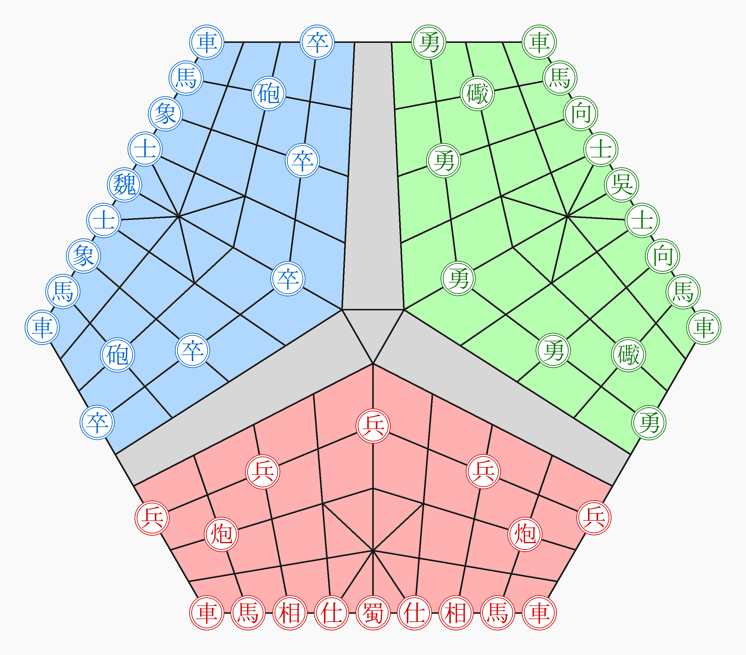 RS Song font, all done in MSPAINT. Thanks to Roleigh Martin for his kind guidance on kanji, Xiangqi, Janggi, and Game of the Three Kingdoms.